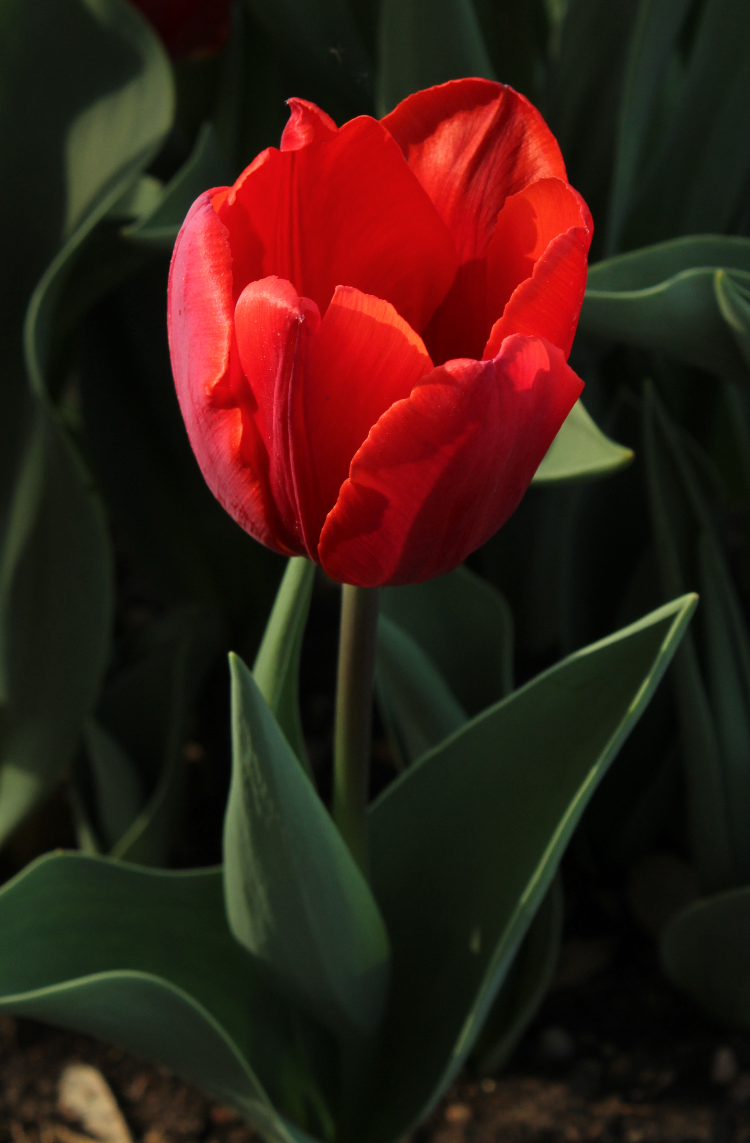 Tulipa cultivar 'Couleur Cardinal' (Lily-flowered Group) in the Botanical Garden of the University of Vienna.